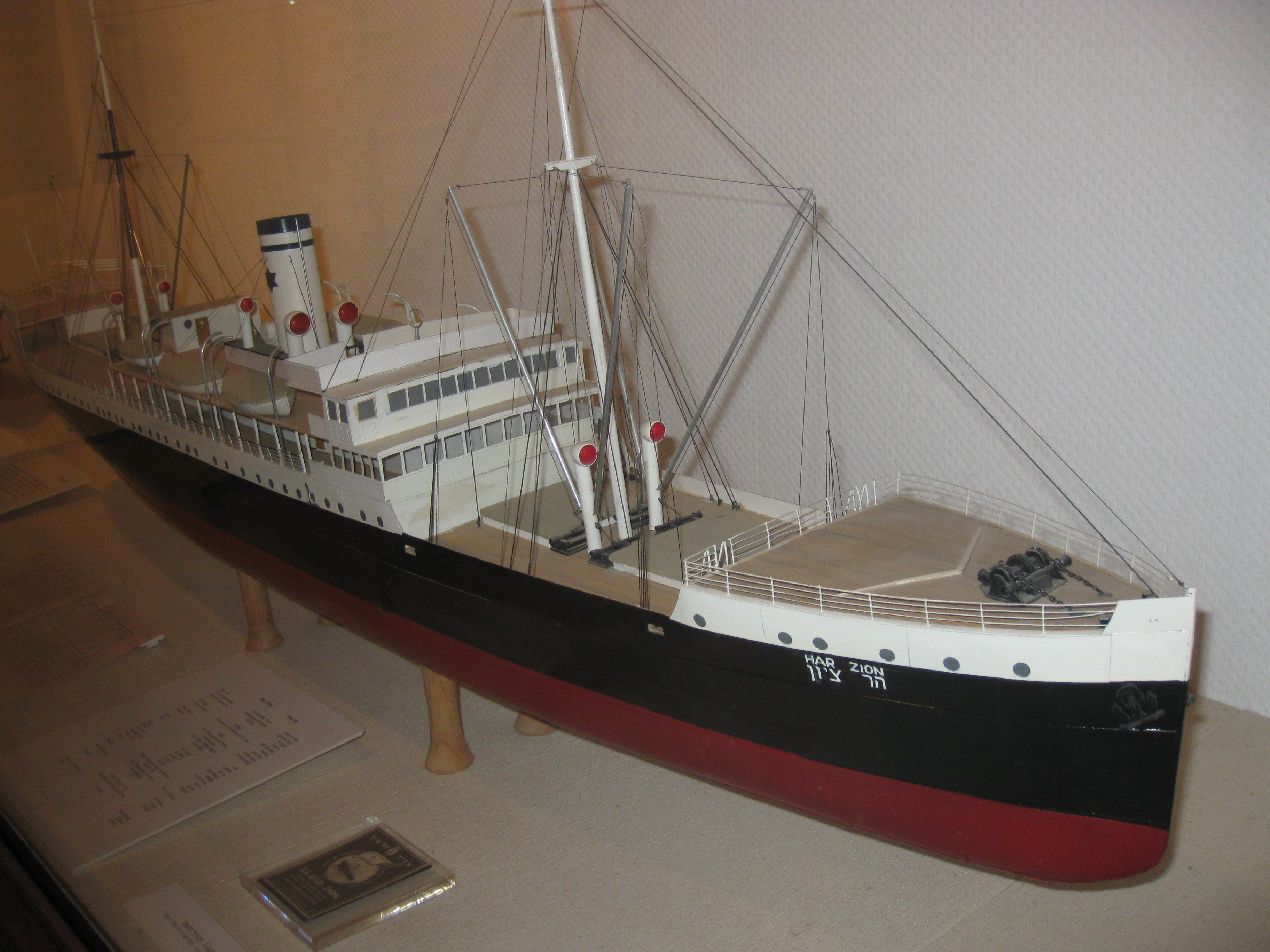 National Maritime Museum, Israel - Ship Models A model of Palestine Maritime Lloyd's 2,508 GRT cargo and passenger ship Har Zion. Model built by Alexander Blokhin